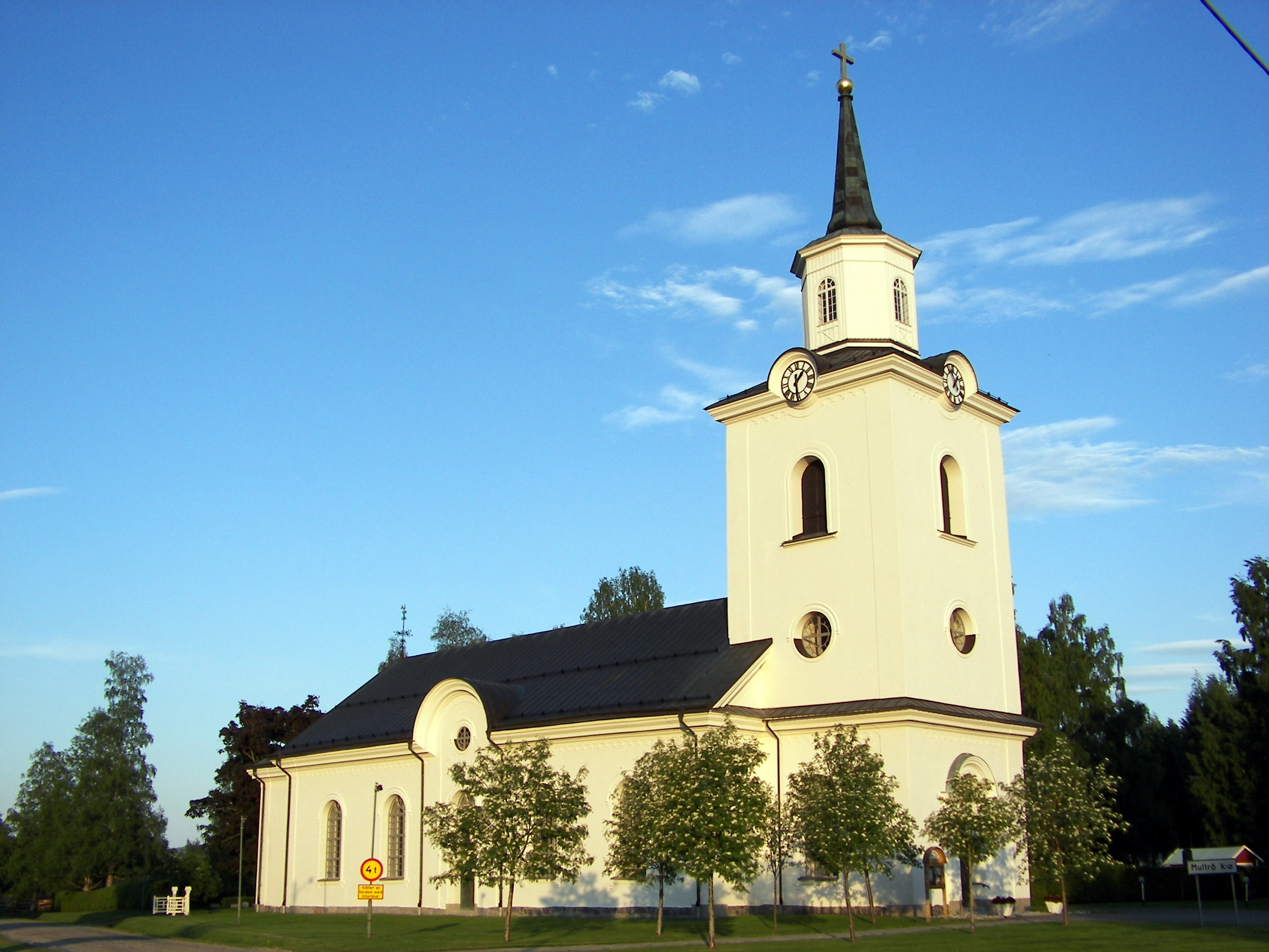 Multrå church, Sweden